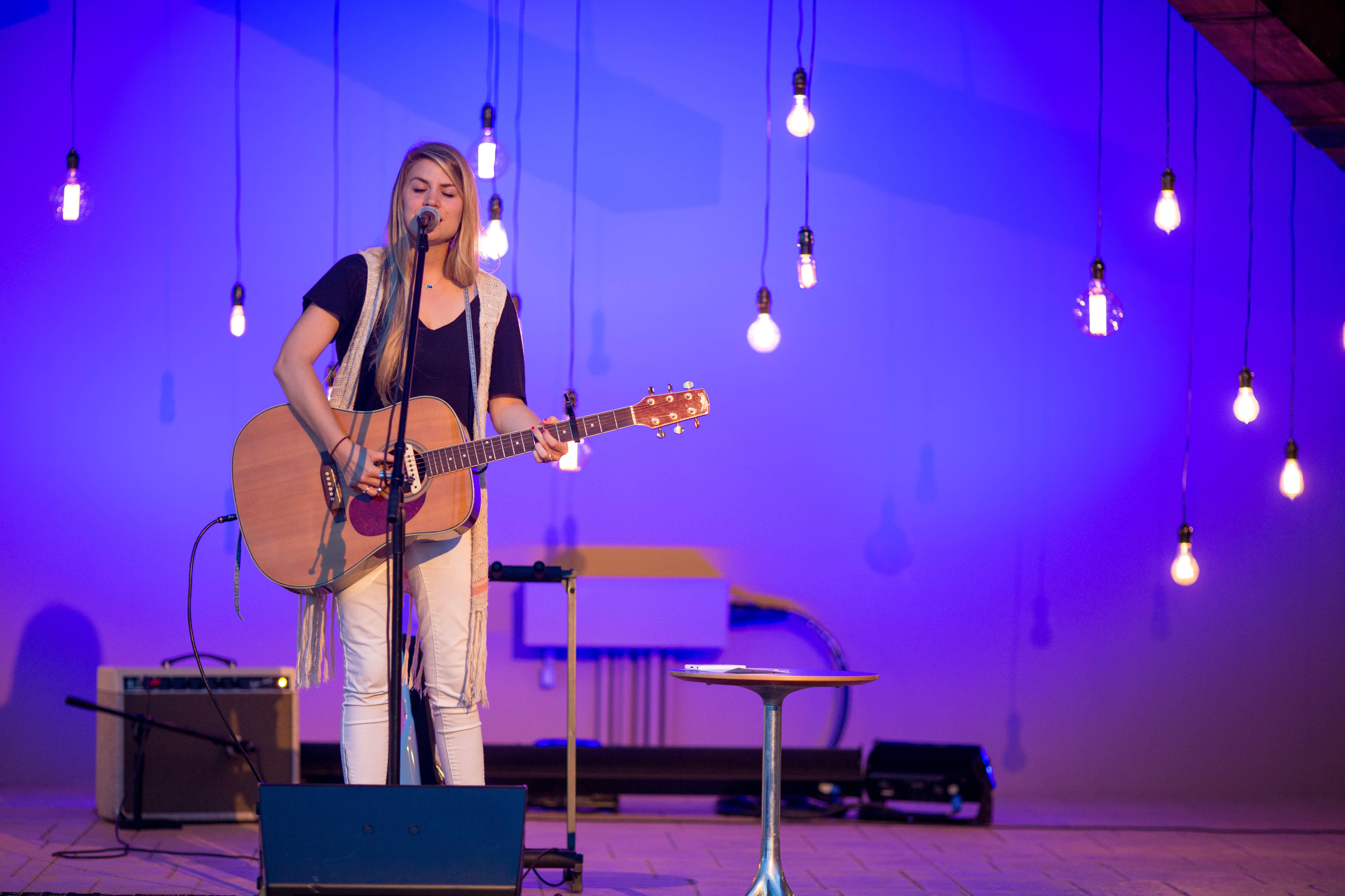 Jillian Edwards concert at The Corner in Chesterfield, MO